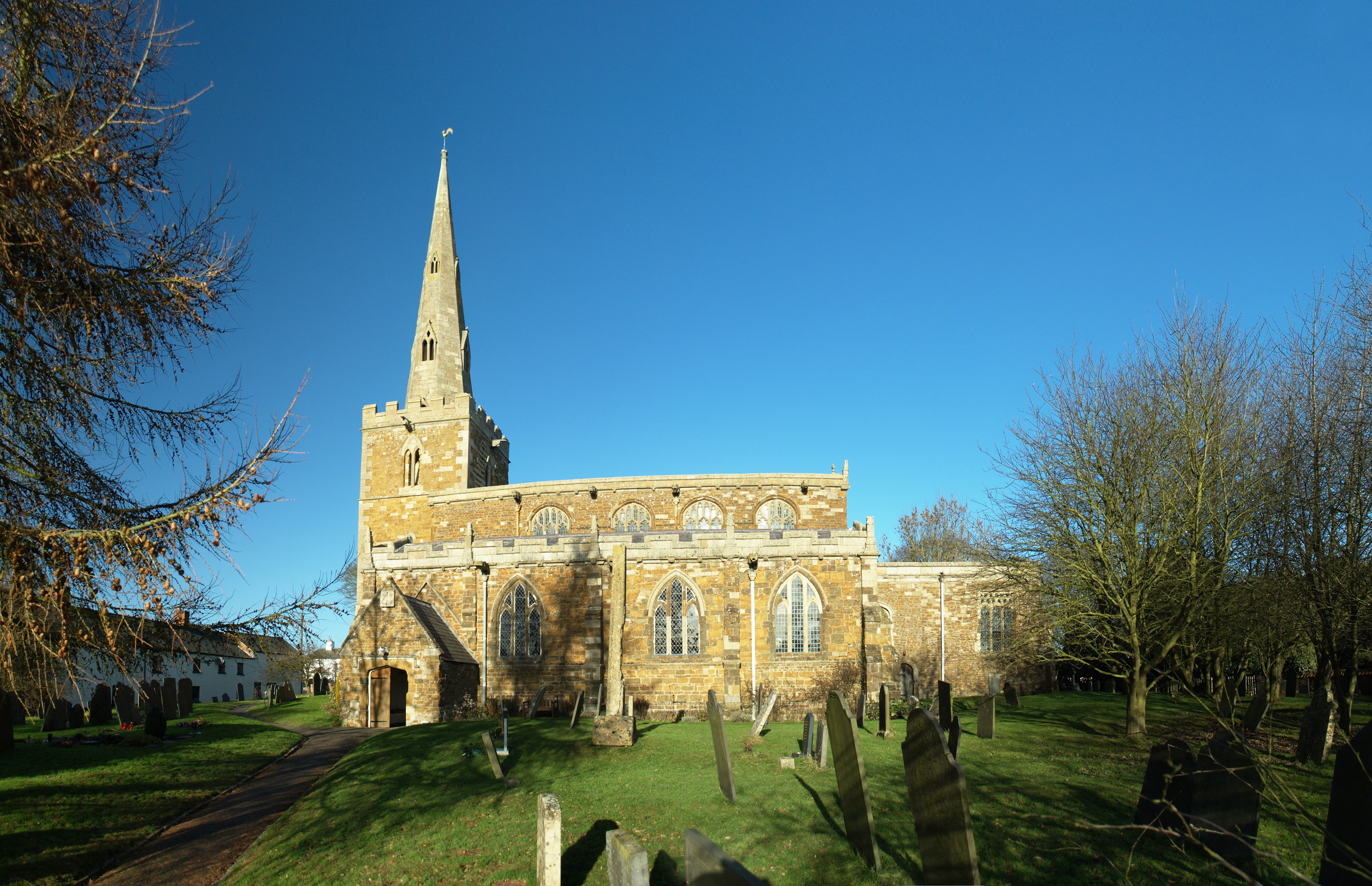 St Peter's parish church, Tilton on the Hill, Leicestershire. The headless cross in the foreground is a scheduled monument